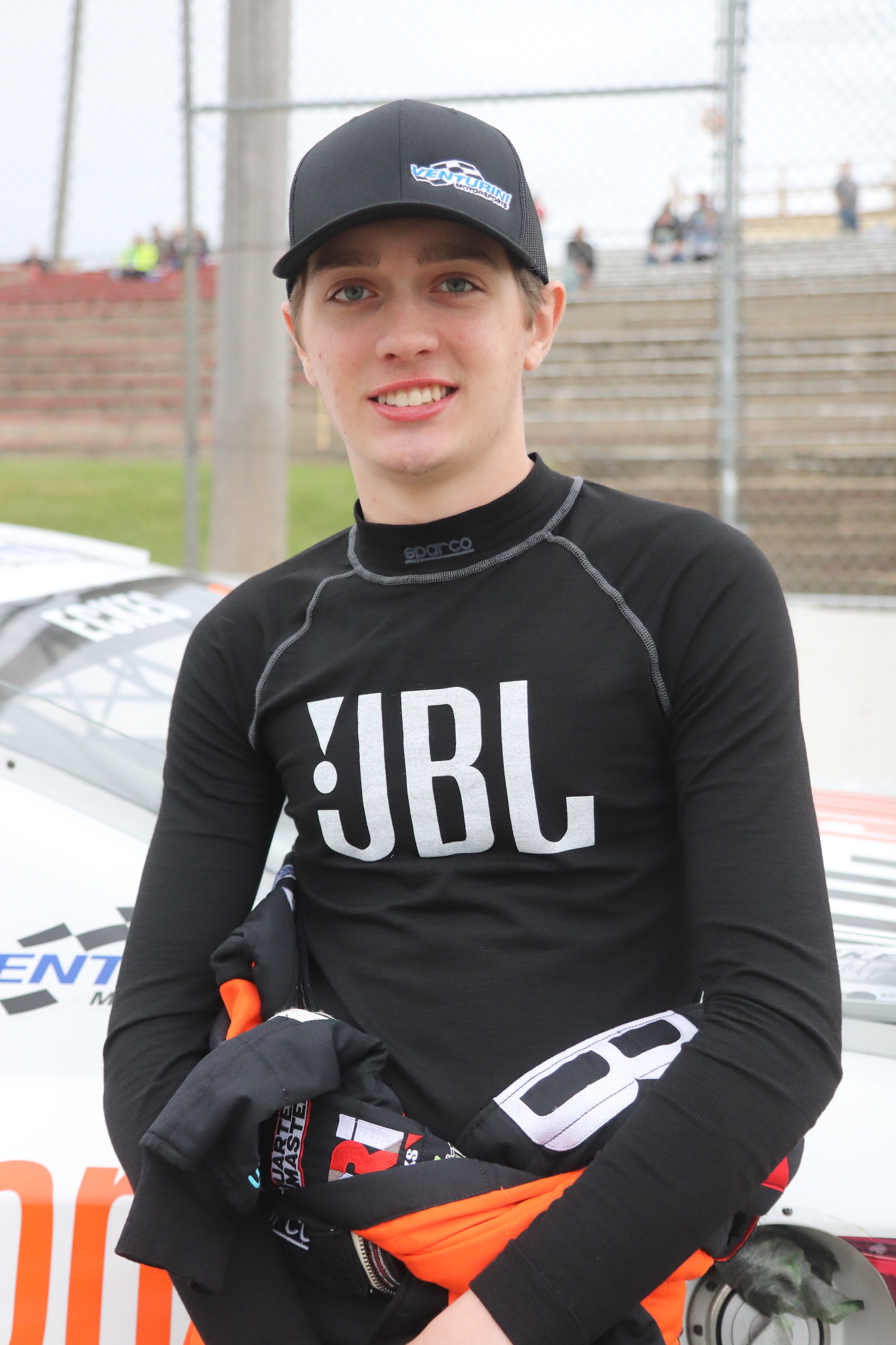 ARCA / NASCAR driver Christian Eckes poses at Madison International Speedway.